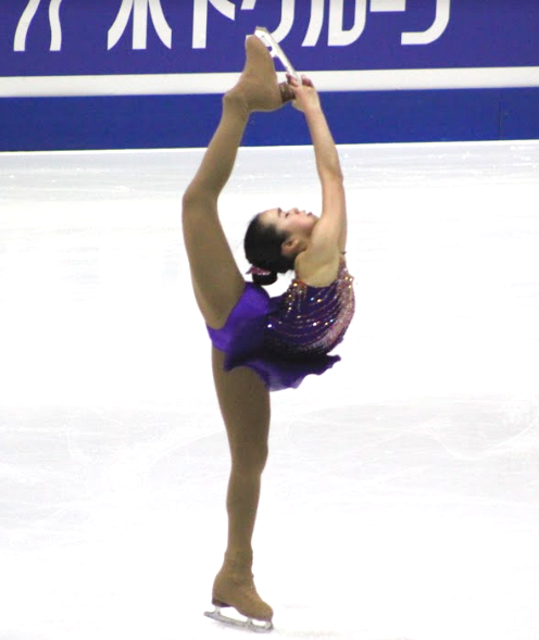 Karen Chen performing a biellmann spin in 2015